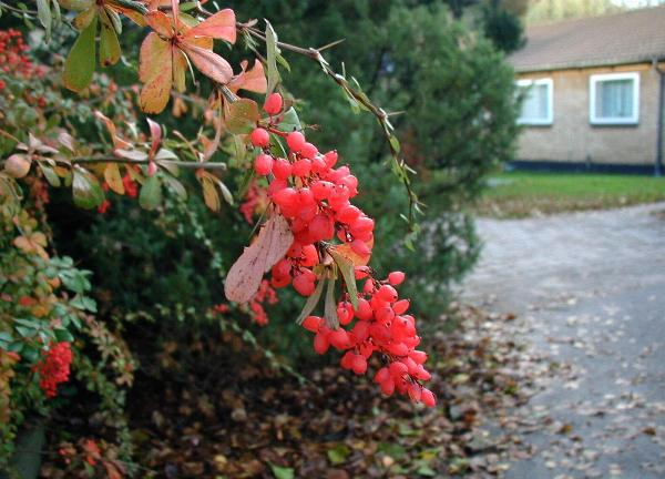 Berberis aggregata: Autumn-coloured leaves and berries.